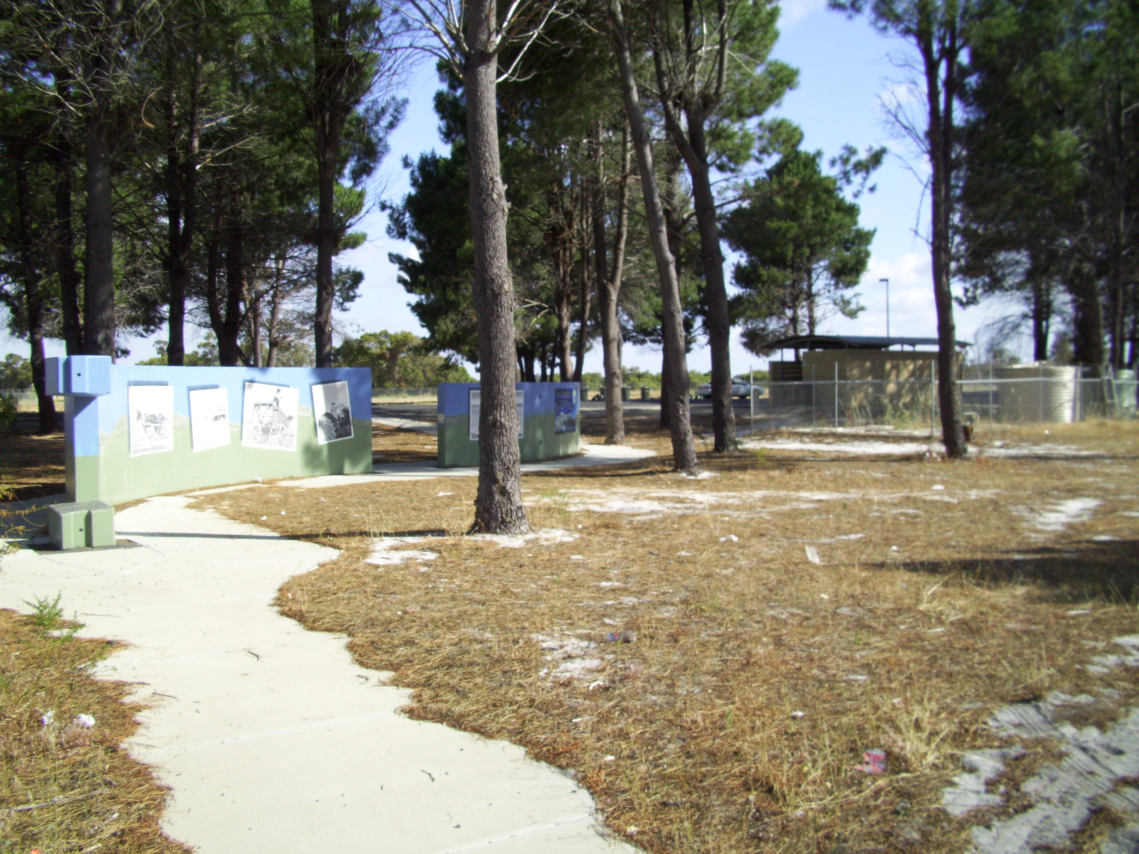 Art walls and toilet block at John Tognela Rest Stop, adjacent to Forrest Highway in Waroona, Western Australia